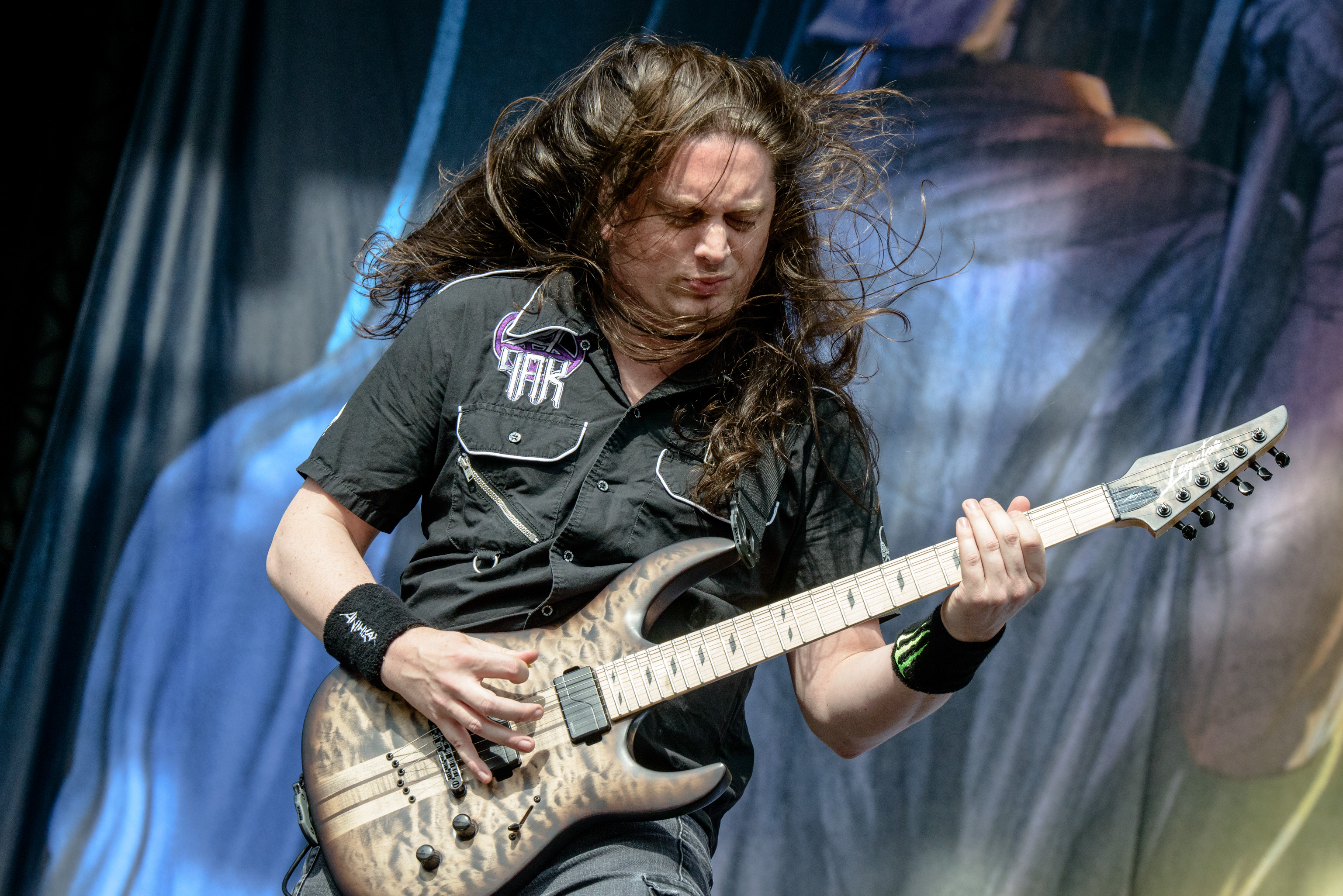 Anthrax Live @ Rockavaria 2016